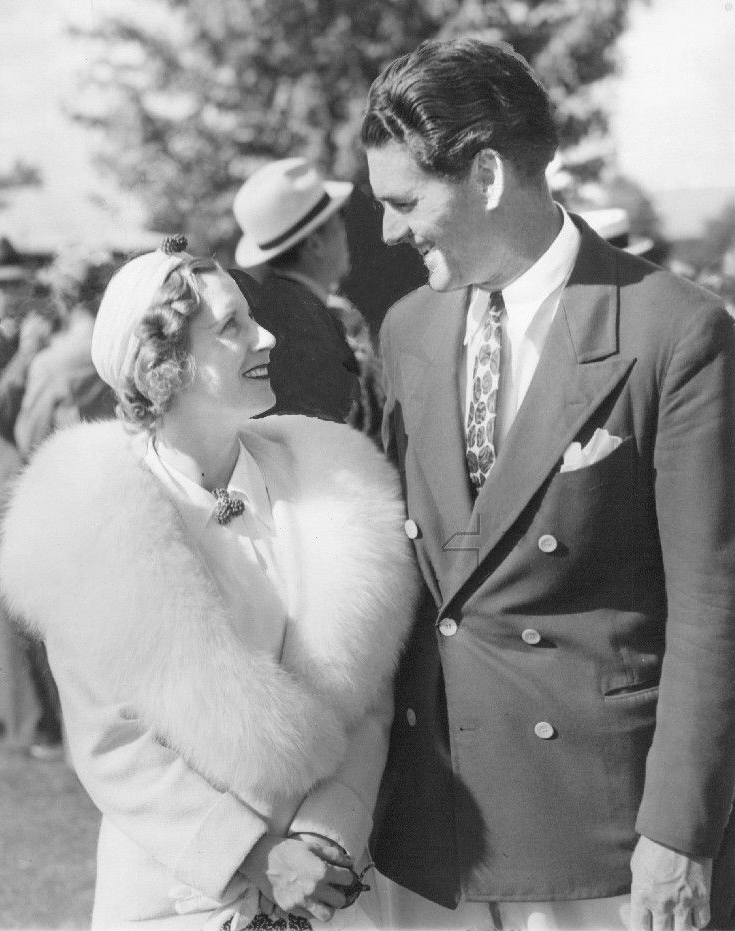 1937 PGA Tour Golfer Frank Walsh & Wife Press Photo